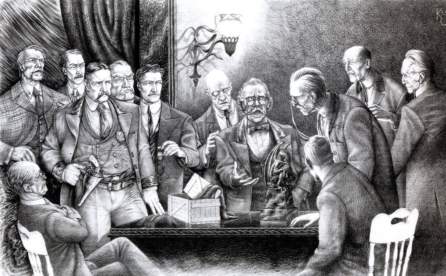 The Council. Korkut Öztekin's artwork based on H. P. Lovecraft's short story "The Call of Cthulhu".